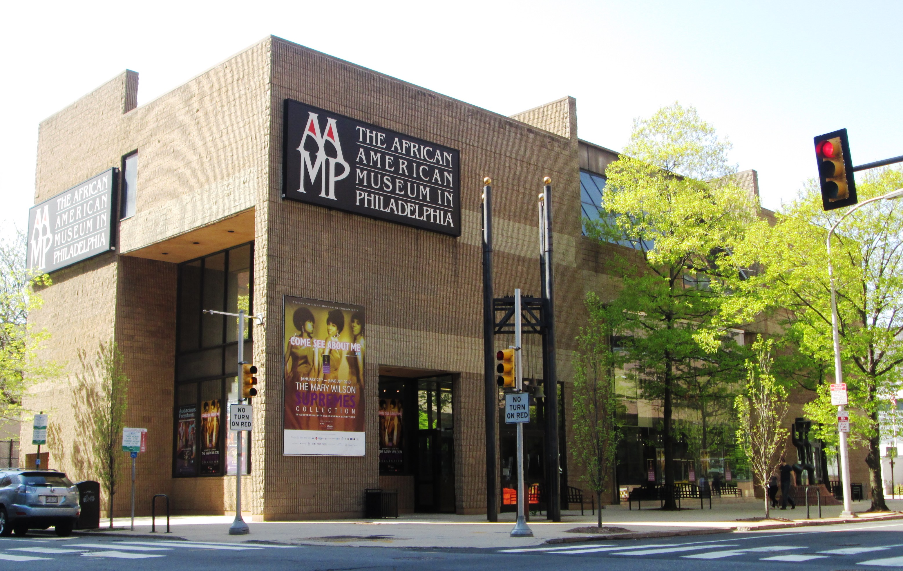 The African American Museum in Philadelphia at 701 Arch Street at the corner of N. 7th Street was founded in 1976 as part of the Bicentennial. It was the first museum funded and built by a municipality to help preserve, interpret and exhibit the heritage of African Americans.